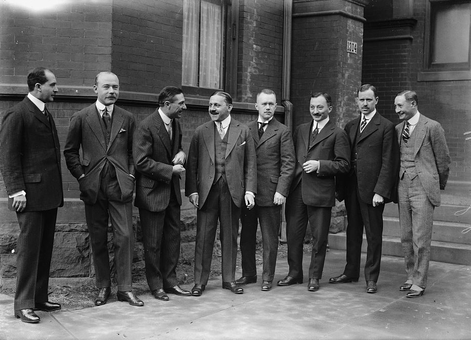 Associates of the Embassy of Austria-Hungary in Washington D.C. Second from left is Ambassador Constantin Theodor Dumba Location: USA Tags: tableau, Austro-Hungarian Empire, celebrity Title: Az Osztrák–Magyar Monarchia nagykövetségének munkatársai, balról a második Dr. Constantin Theodor Dumba nagykövet.